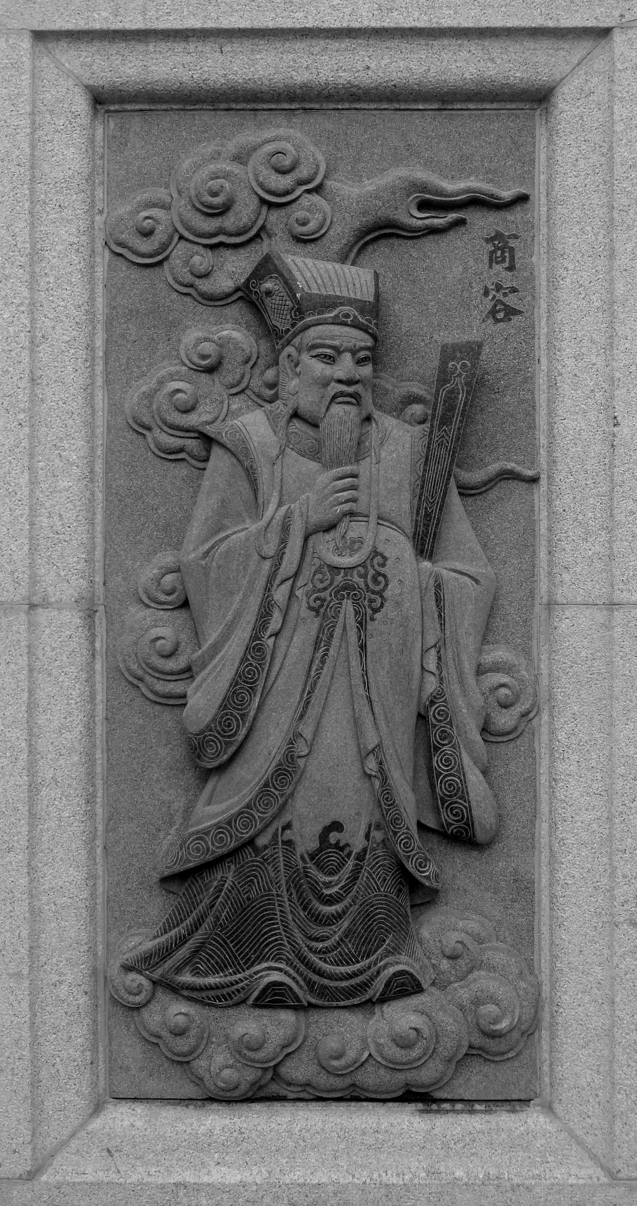 073 Shang Rong, Investiture of the Gods at Ping Sien Si, Pasir Panjang, Perak, Malaysia Photograph from the Ping Sien Si Temple in Perak, Malaysia taken by Anandajoti.